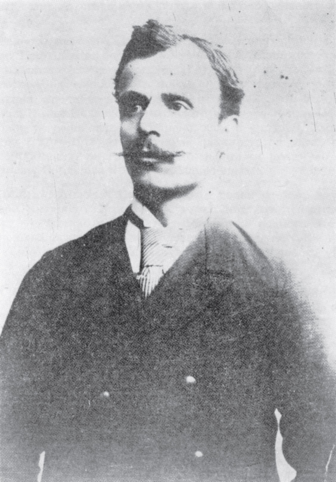 Dimitar Andonov Papradishki(1859-1954)